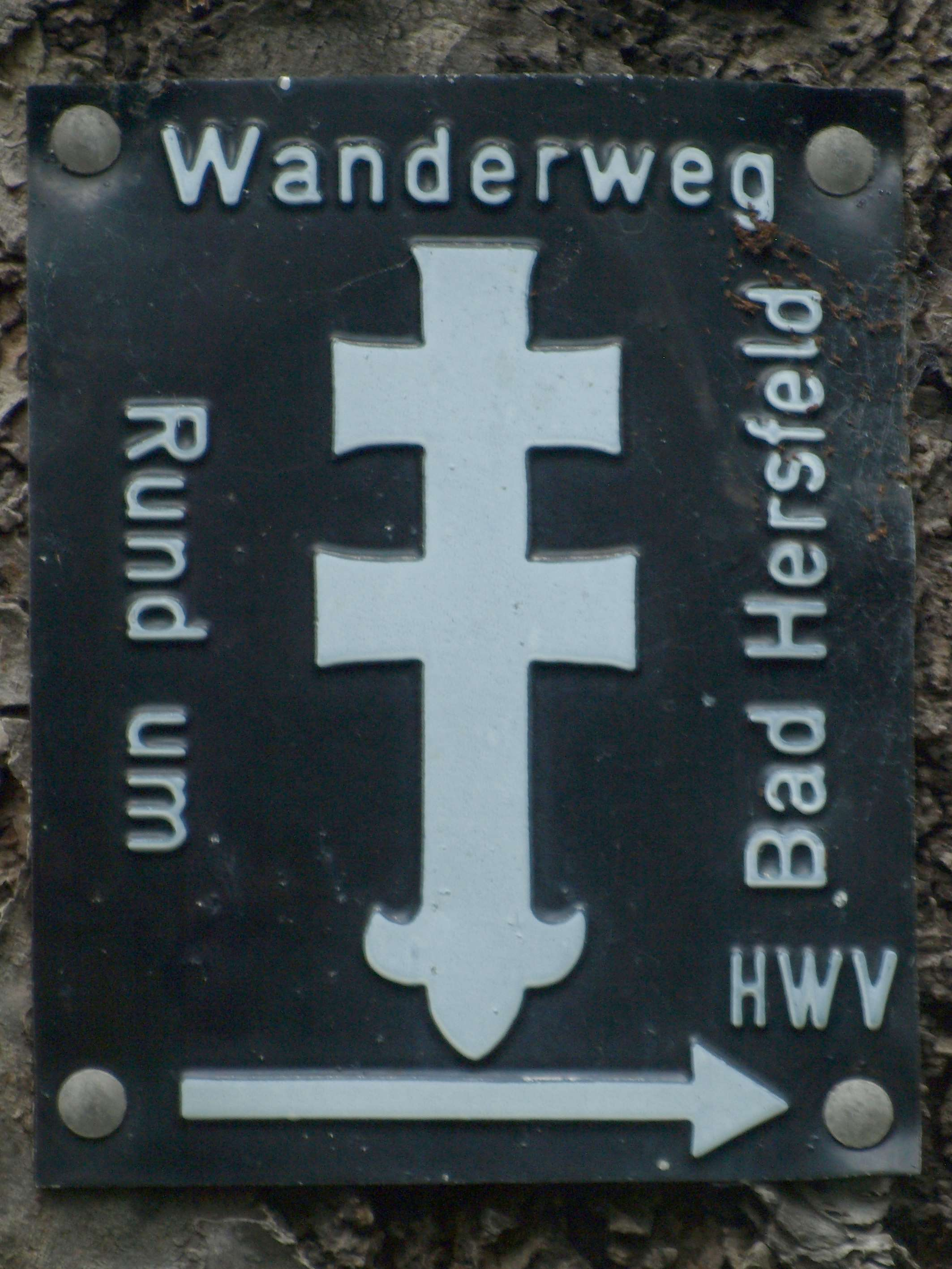 footpath sign of way around Bad Hersfeld